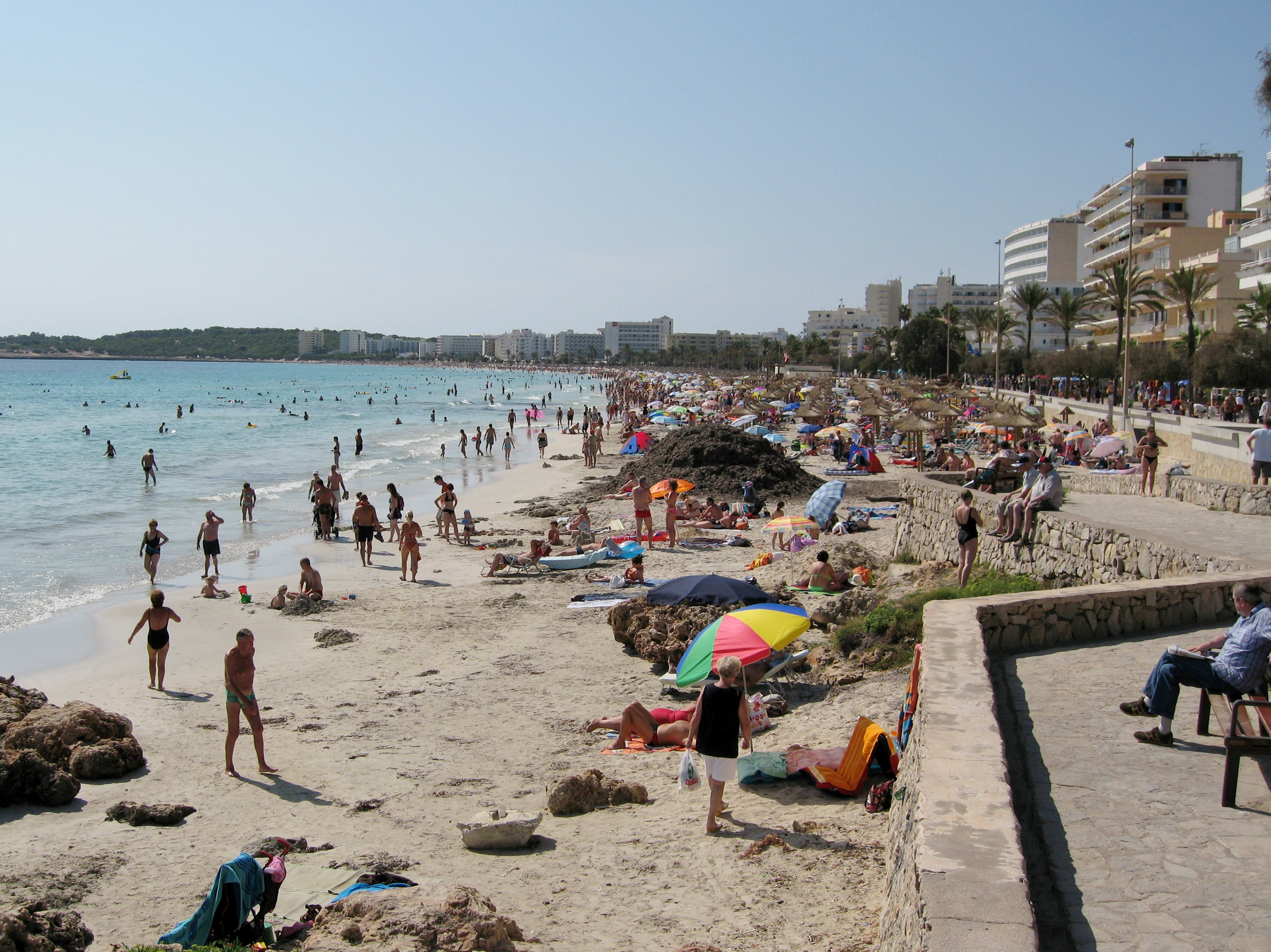 Beach of Cala Millor, Son Servera, Mallorca, Spain